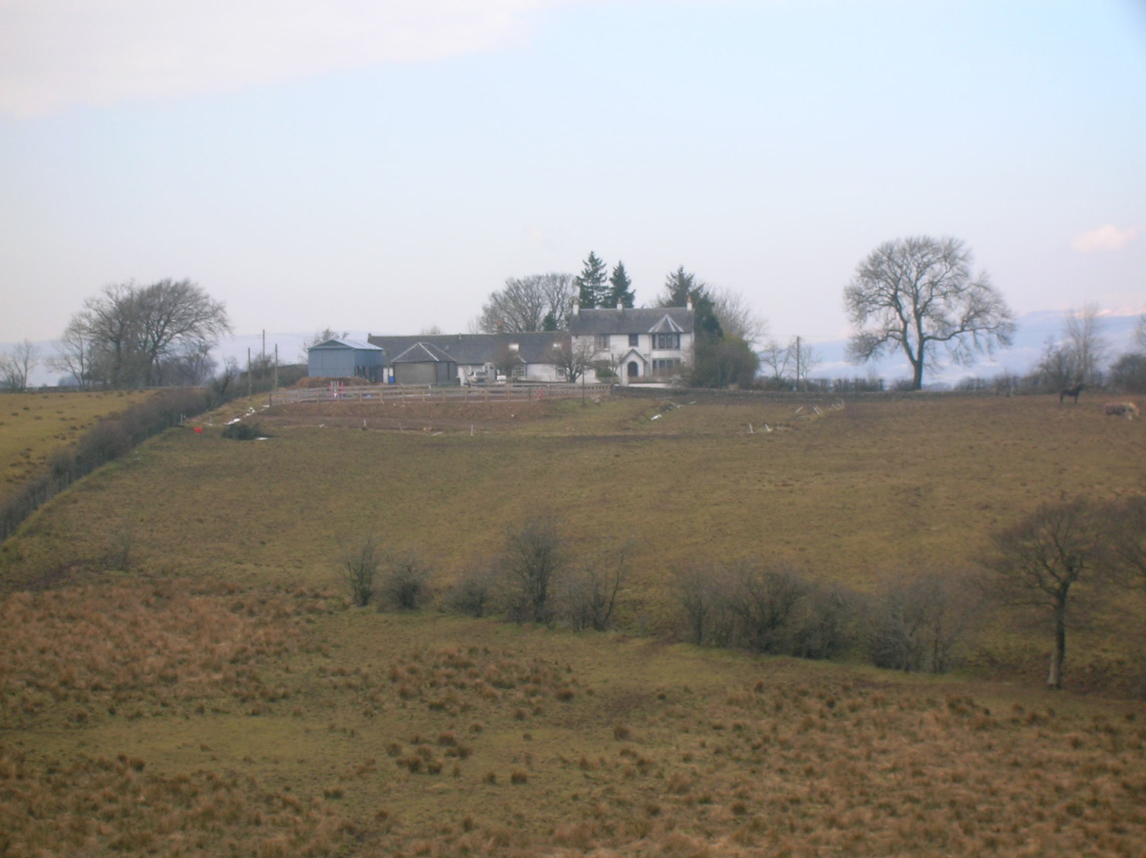 Thirdpart Farm, Greenhils, near Barrmill, North Ayrshire, Scotland.